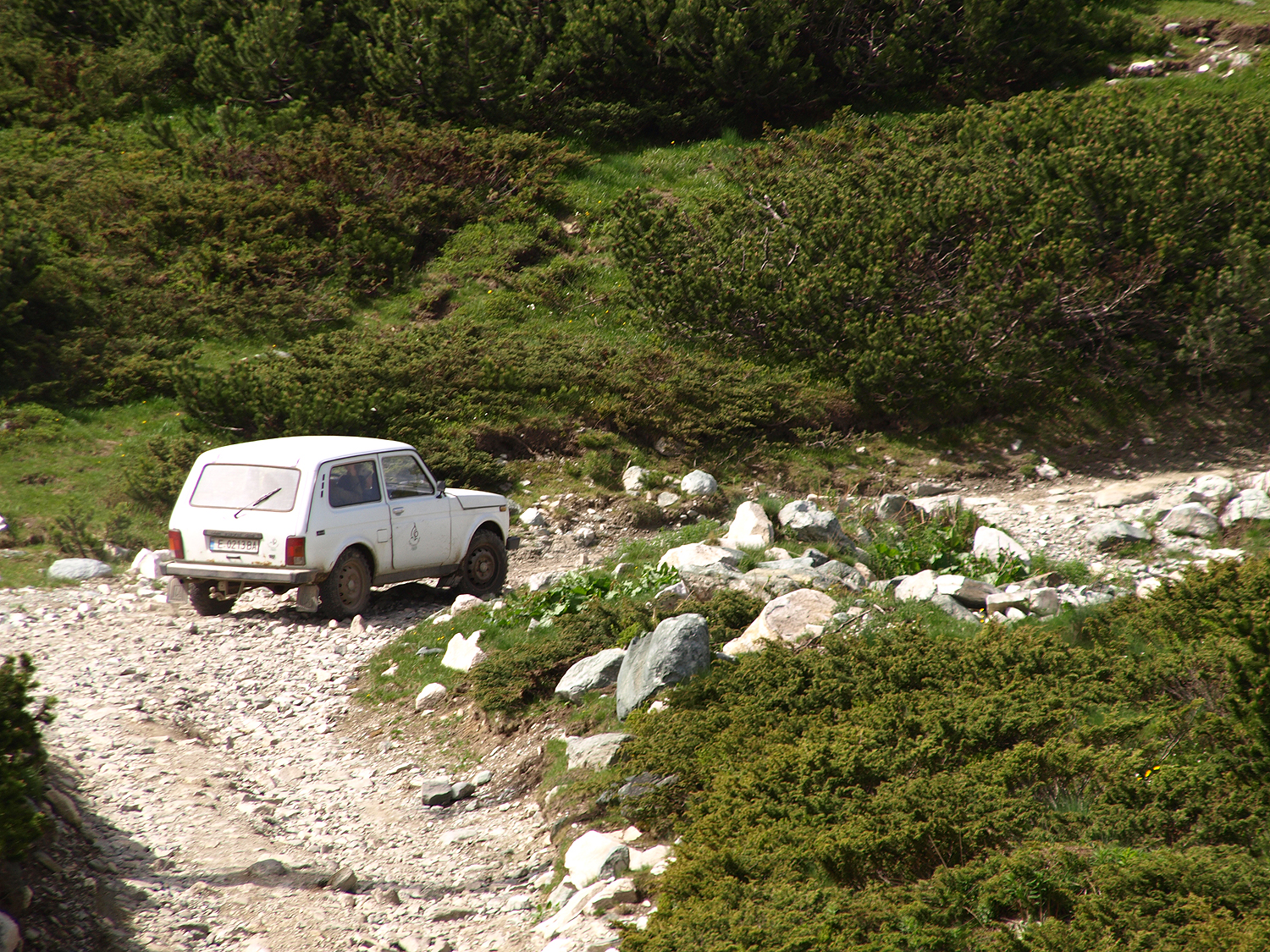 Lada Niva on a mountain trek in Rila, Bulgaria